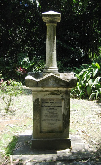 Tomb of Heinrich Kuhl (1797-1821) and Johan Coenraad van Hasselt (1797-1823), Bogor, Java, Indonesia